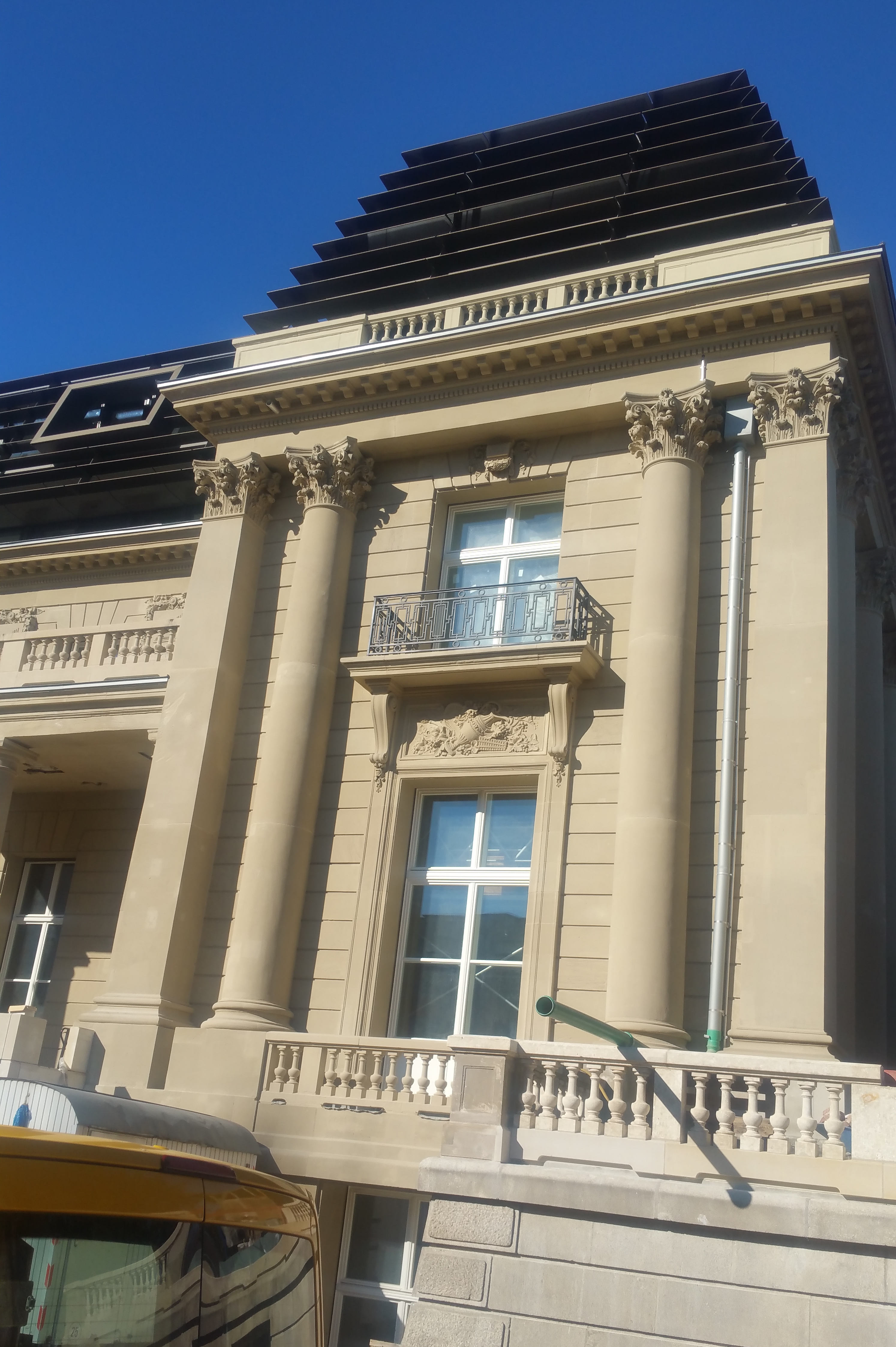 Villa Oppenheim in Cologne (Bayenthal). South-Side